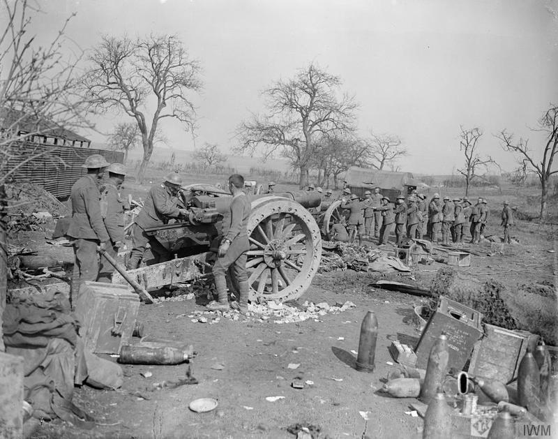 The German Spring Offensive, March-july 1918 Battle of St. Quentin. Gunners of the 299th Siege Battery, Royal Garrison Artillery checking the breech of a 6-inch howitzer whilst others hauling another howitzer into a new position. Avesnes, 23 March 1918.